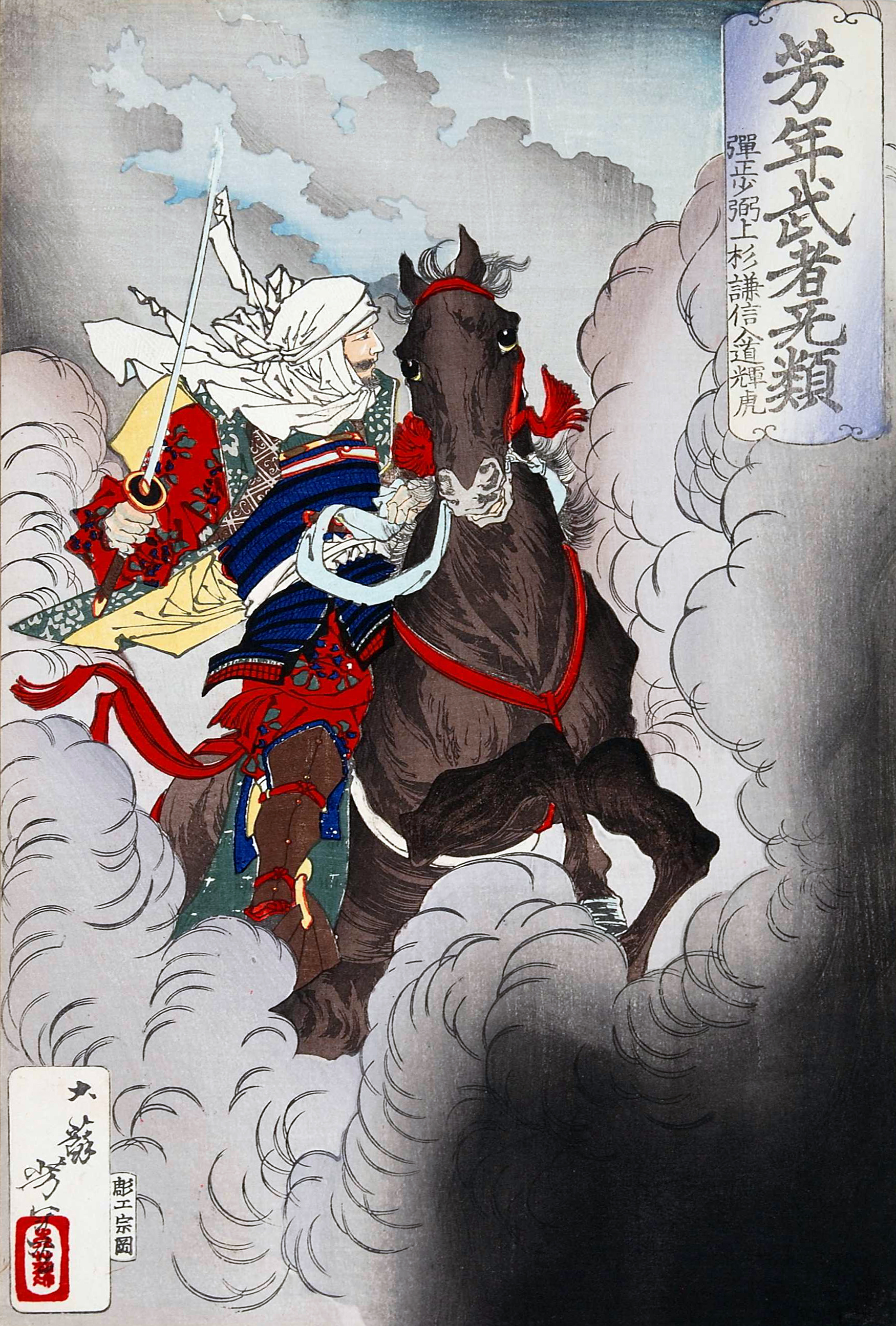 Uesugi Kenshin depicted on a print of the seriesbook Courageous warriors of Yoshitoshi